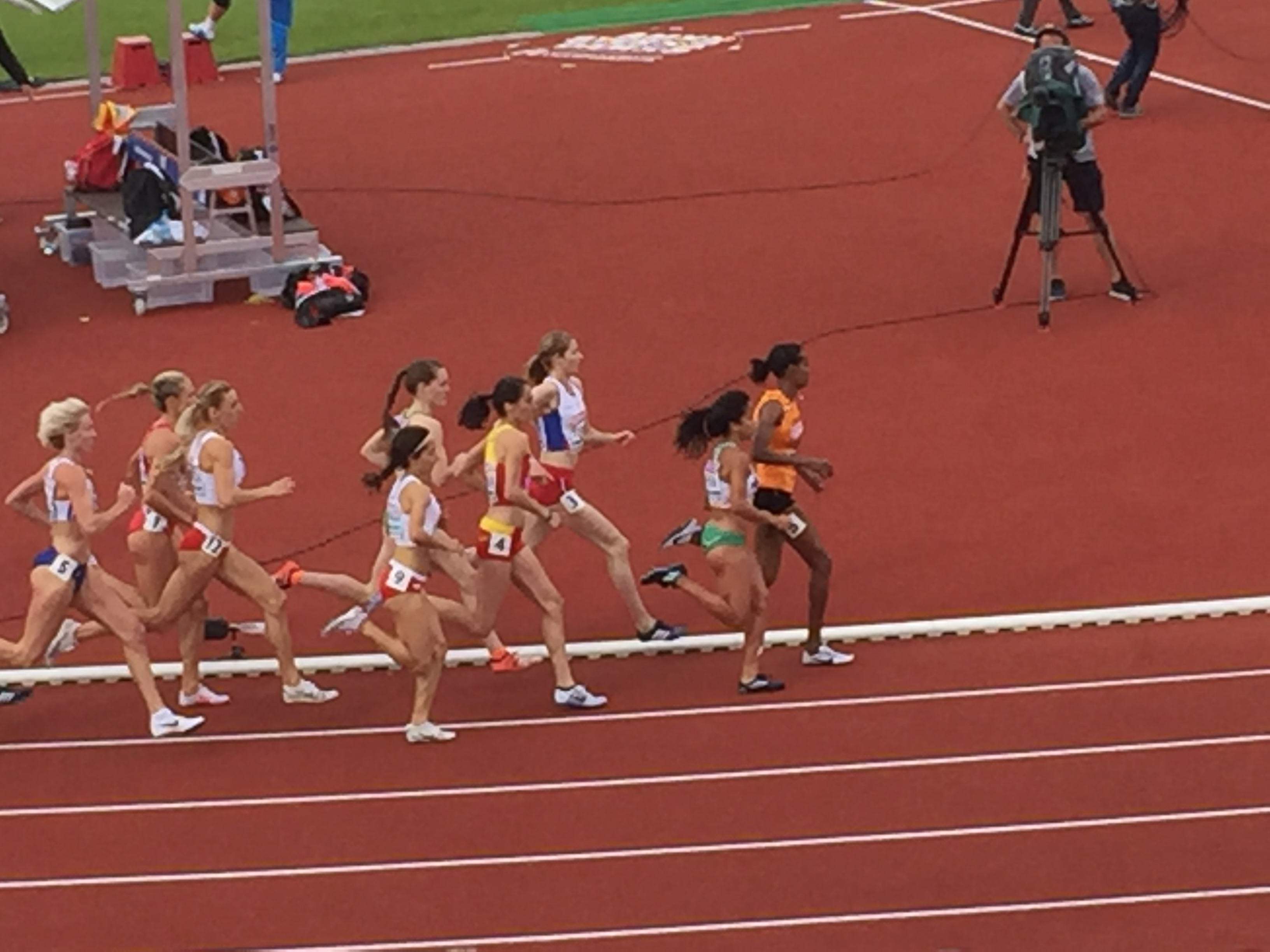 European Athletic Championships 2016 in Amsterdam - 10 July 2016 European Championships in Athletics (10 August) Schedule for this day: Finals: 17:00 High Jump M 17:05 400m Hurdles W 17:10 Hammer Throw M 17:15 3000m Steeplechase W 17:25 Triple Jump W 17:30 Shot Put M 17:35 4 x 100m W 17:45 1500m W 17:55 4 x 100m M 18:10 5000m M 18:30 800m M 18:40 4 x 400m W 18:50 4 x 400m M